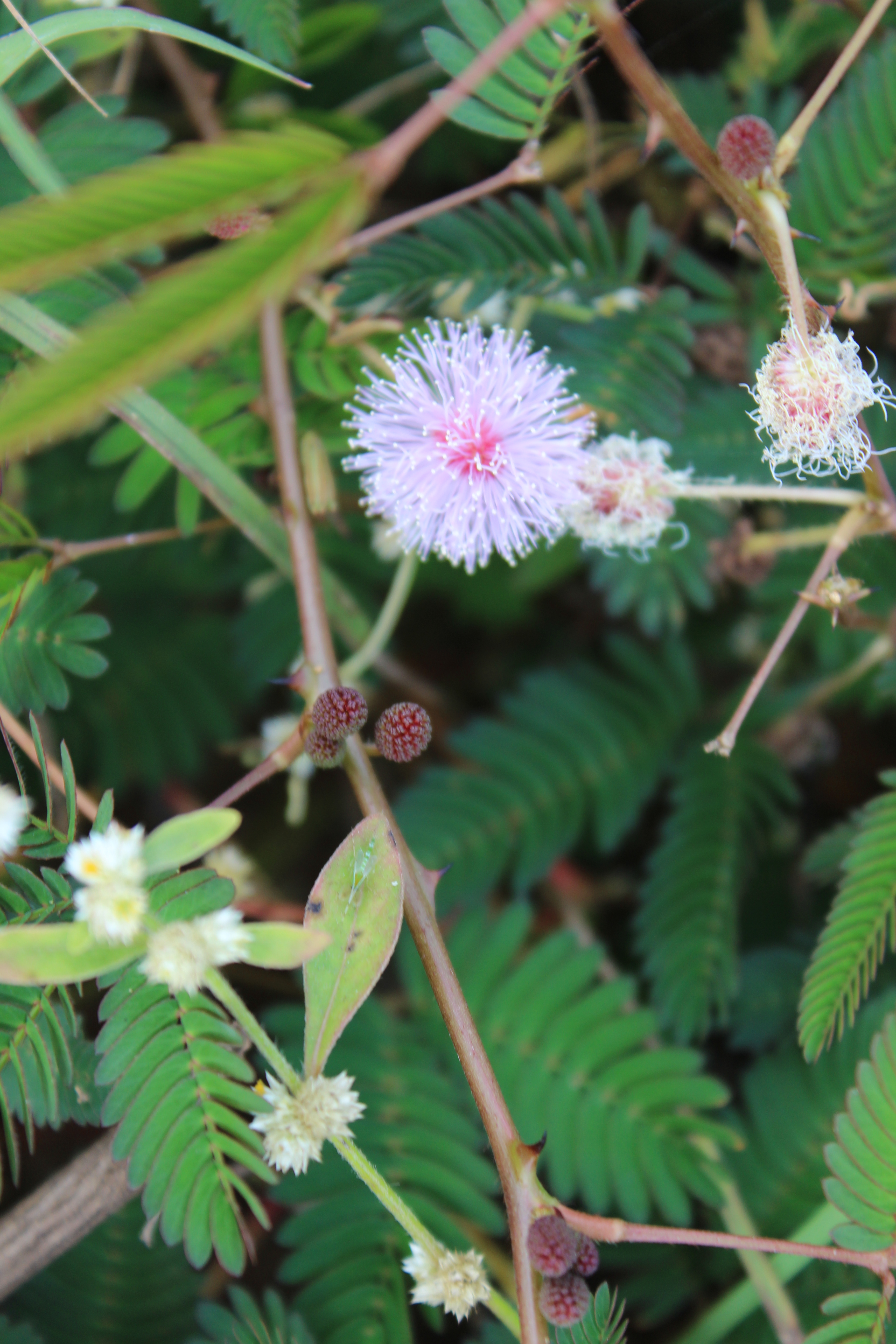 touch me not అత్తిపత్తి